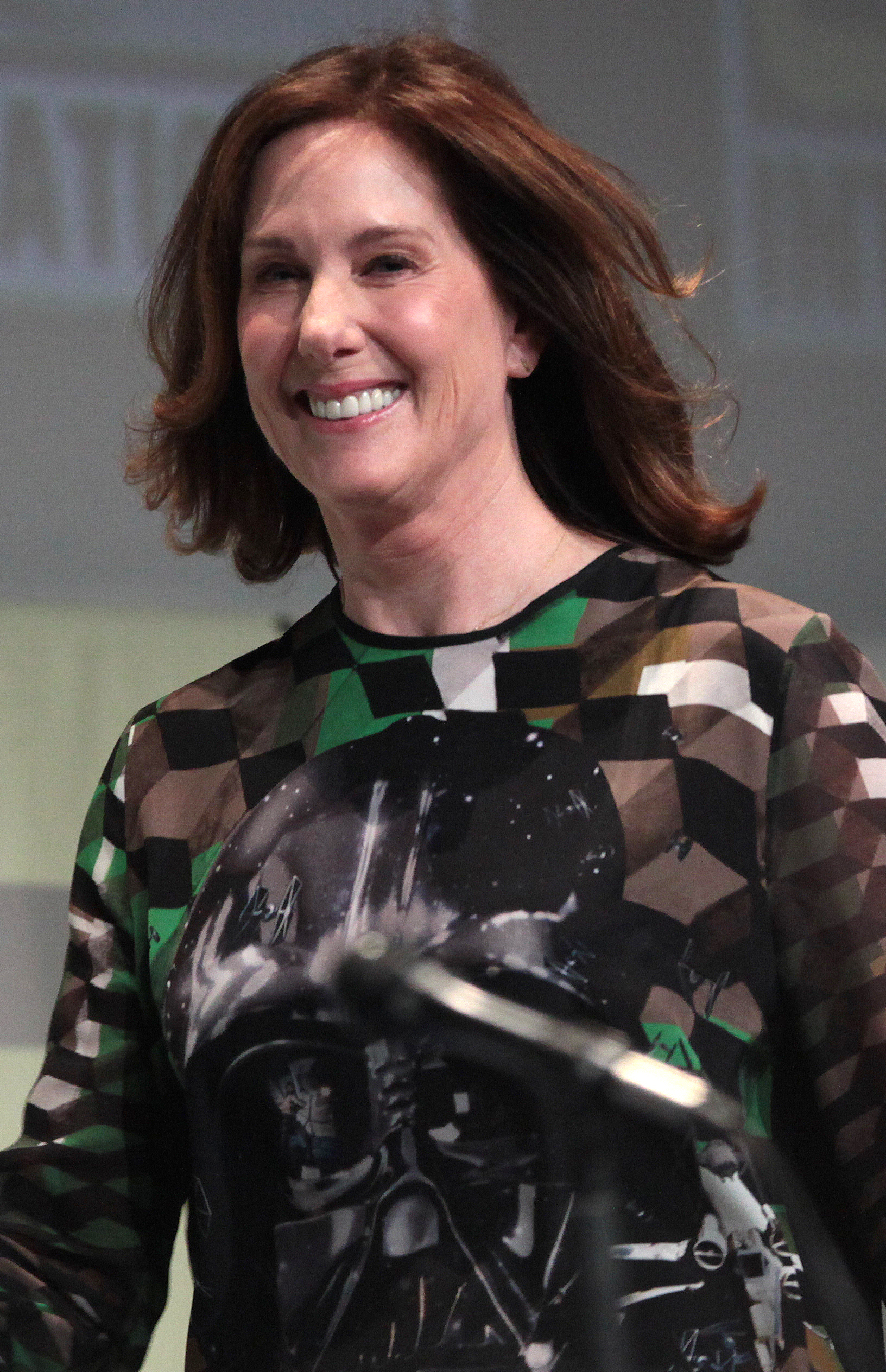 Kathleen Kennedy at the 2015 San Diego Comic Con International in San Diego, California.